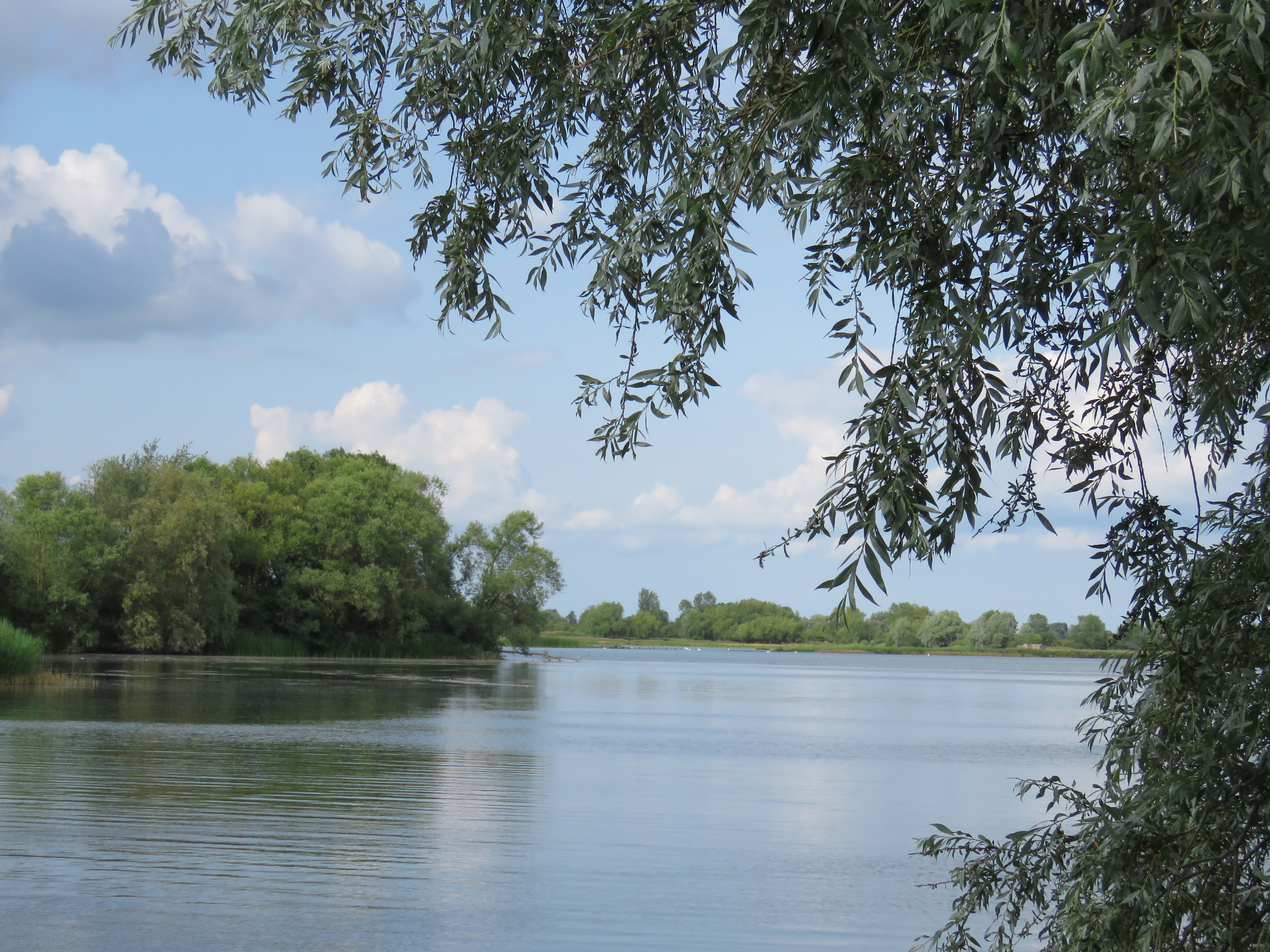 rspb Fen Drayton, Cambridgeshire